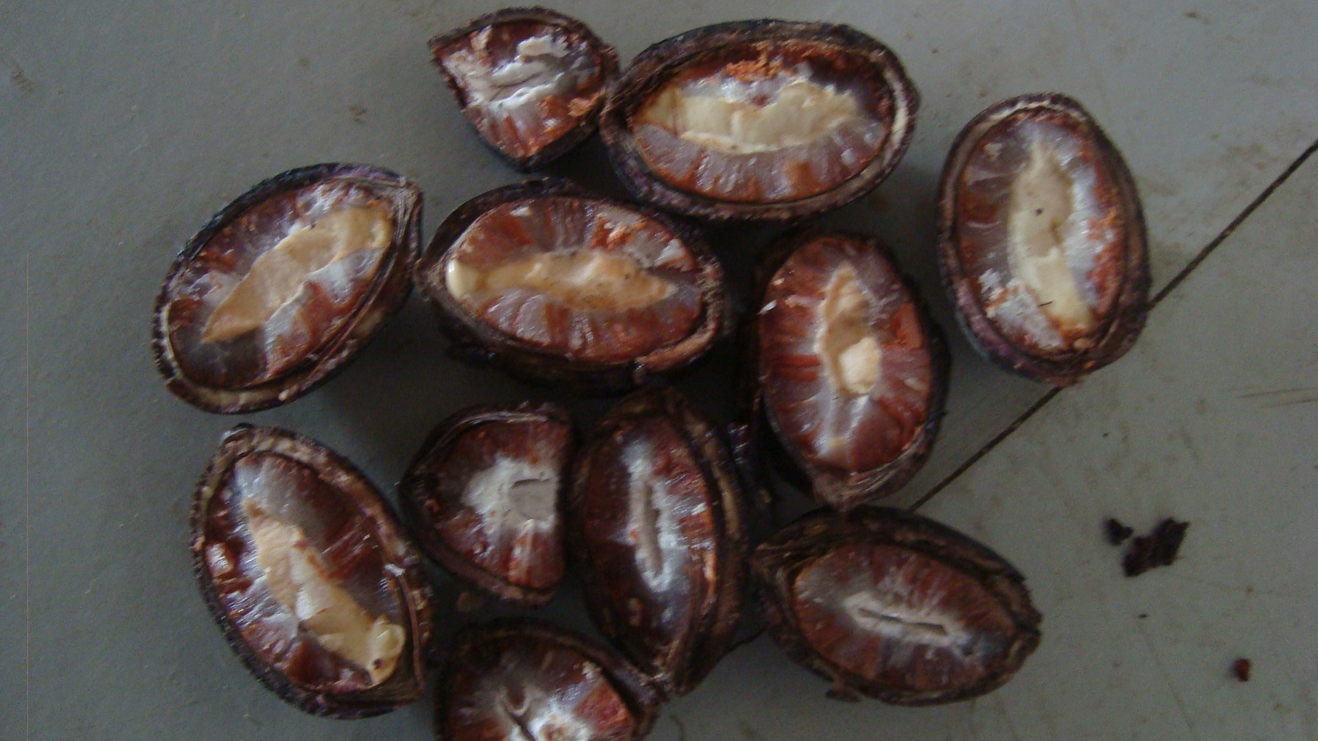 Patauá seed.